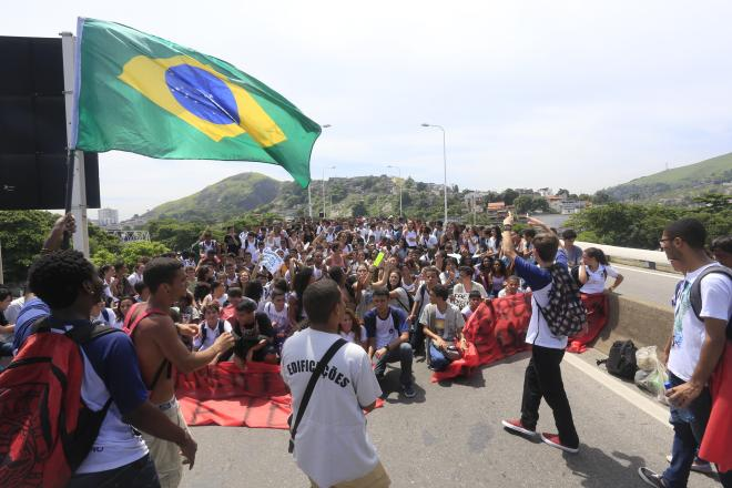 ETE Henrique Lage